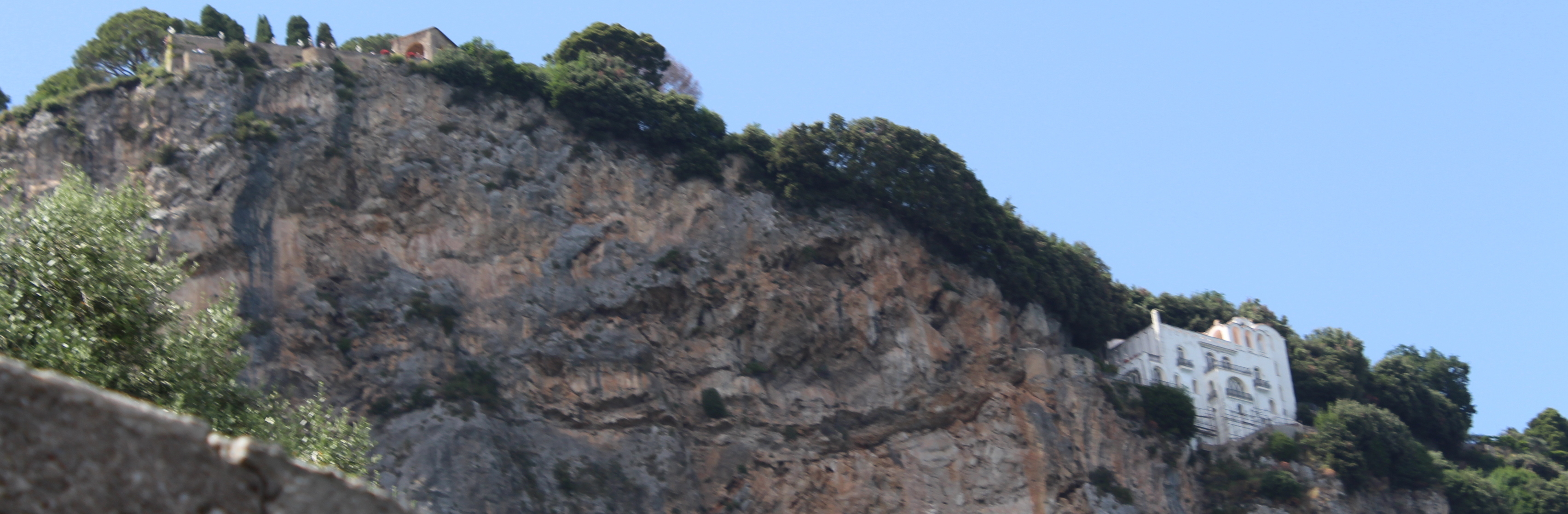 Villa Cimbrone is a historic building in Ravello, on the Amalfi coast of southern Italy. Dating from at least the 11th century AD, it is famous for its scenic belvedere, the Terrazzo dell'lnfinito (the Terrace of Infinity), which is left in the picture. To the right is the white La Rondinaia villa built on the cliff overhang.